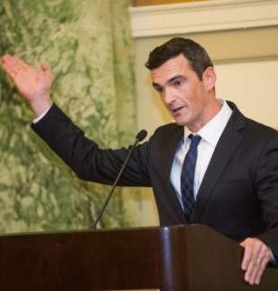 Greg Zerzan speaks at the 6th Annual “Hope on the Hill” Cure SMA Congressional Dinner